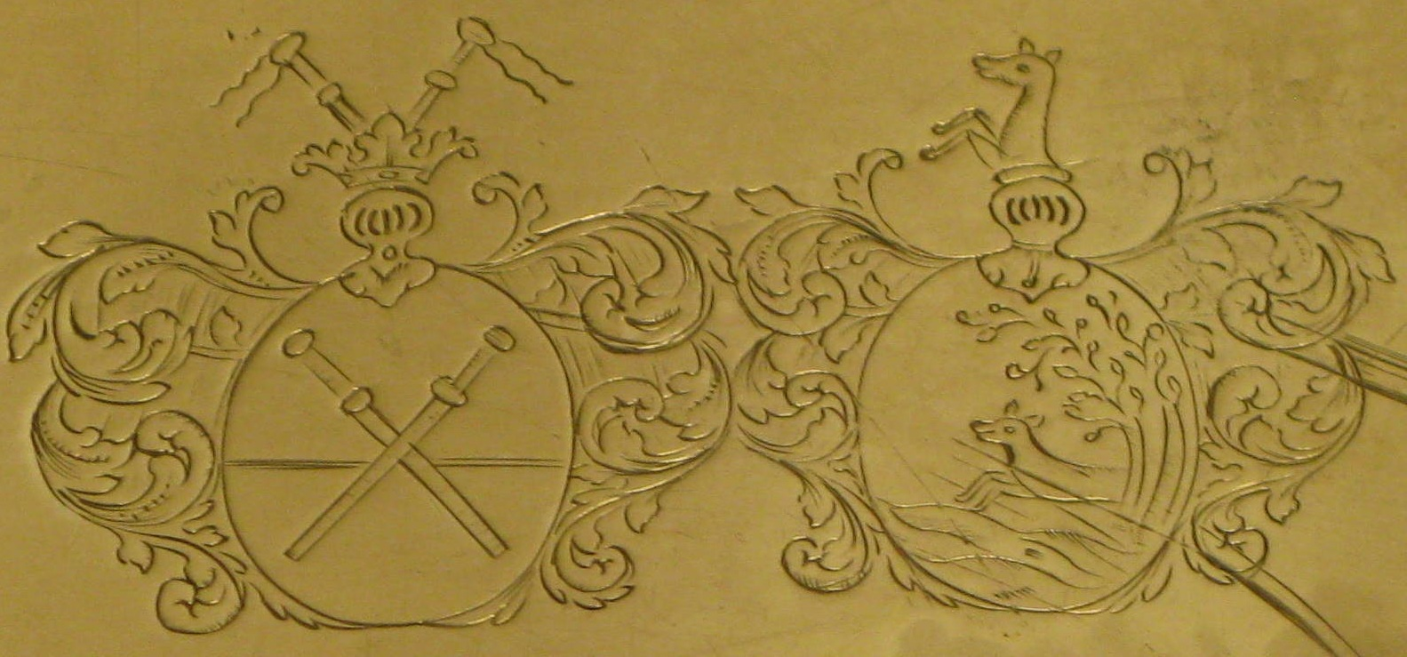 Coat of arms of Sebastiane Hiorth (the left), daughter of a priest, and of Capt. Niels Jensen Mechlenborg (the right; displaying the dog), son of Maj. Jens Hansten and Maren Nielsdatter Mechlenborg. This heraldic artwork is from a silver box of 1763, placed in Sykkylven Church (the old).